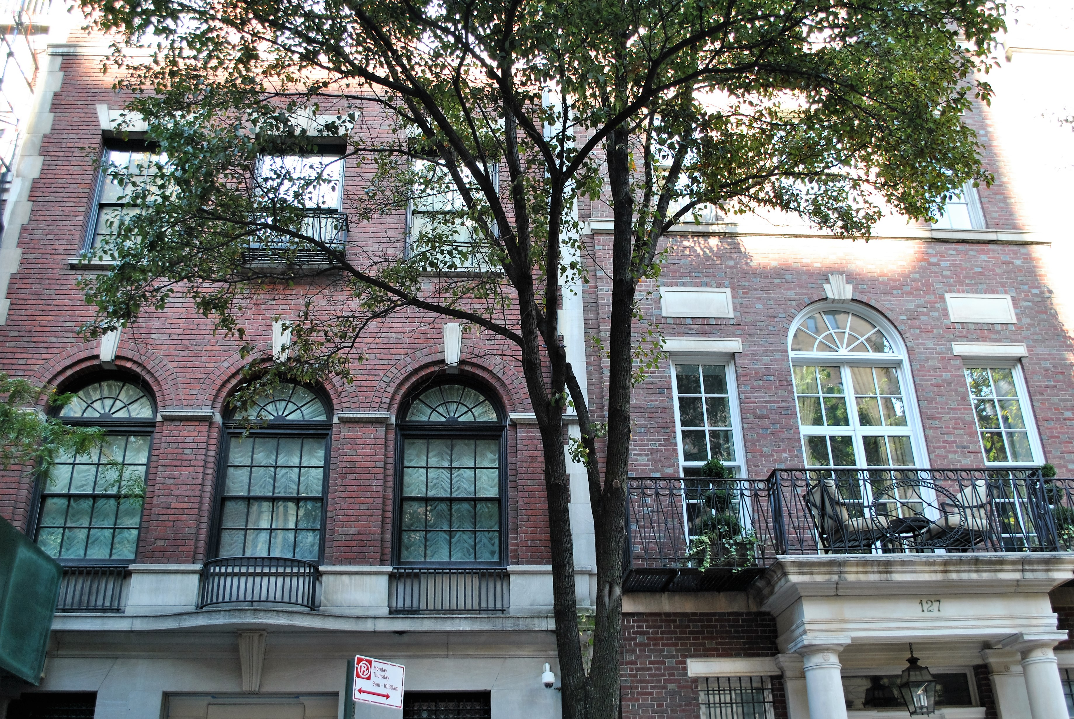 Image originally published in Queer Places: Retracing the Steps of LGBTQ people around the World Authored by Elisa Rolle